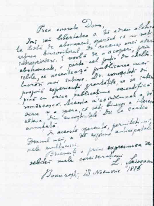 Leter of folklorist Lazăr Şăineanu, addressed to his colleague Simion Florea Marian. Most Honorable Sir,I take the liberty of sending you attached the list of subscriptions, hoping that you will not refuse me your benevolent contribution to such an enterprise. This involves collecting, by means of subscriptions, at least part of the expenses required by the publications of a larger work. You know from personal experience the hardships met with any scientific Romanian publication. This is what has determined me to write you and hope that you will be so kind as to raise the interest of some of your acquaintances in respect to the book that is about to be published.With this hope, allow me, dear Sir, to express my thanks in advance.Please accept the expression of my special respect.L. ŞăineanuBucharest, 13 November 1886